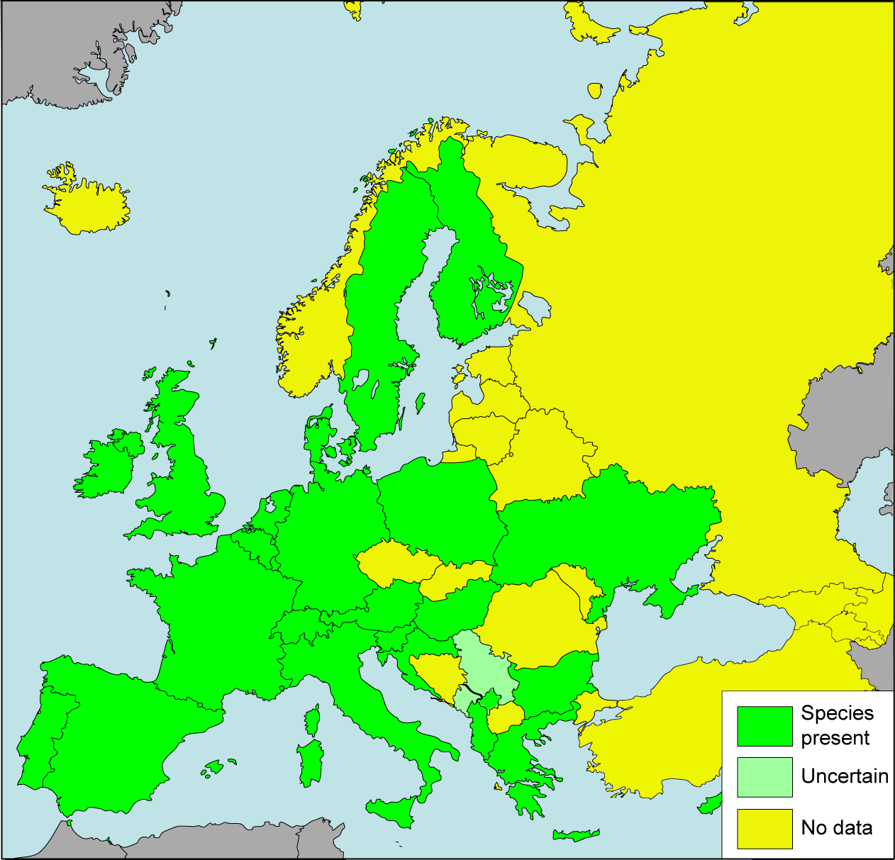 Cornu aspersum, pulmonate land snail species: presence in European countries based upon data from: Cornu aspersum